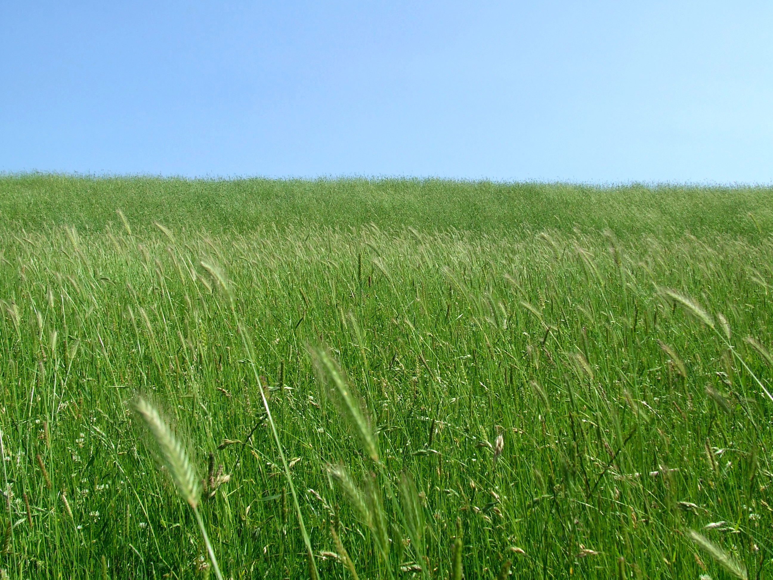 Hordeum secalinum on a dyke in the Elbmarschen near Wedel, Hamburg